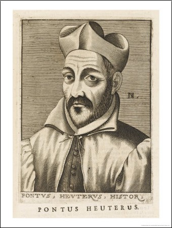 portrait de Pontus Heuterus